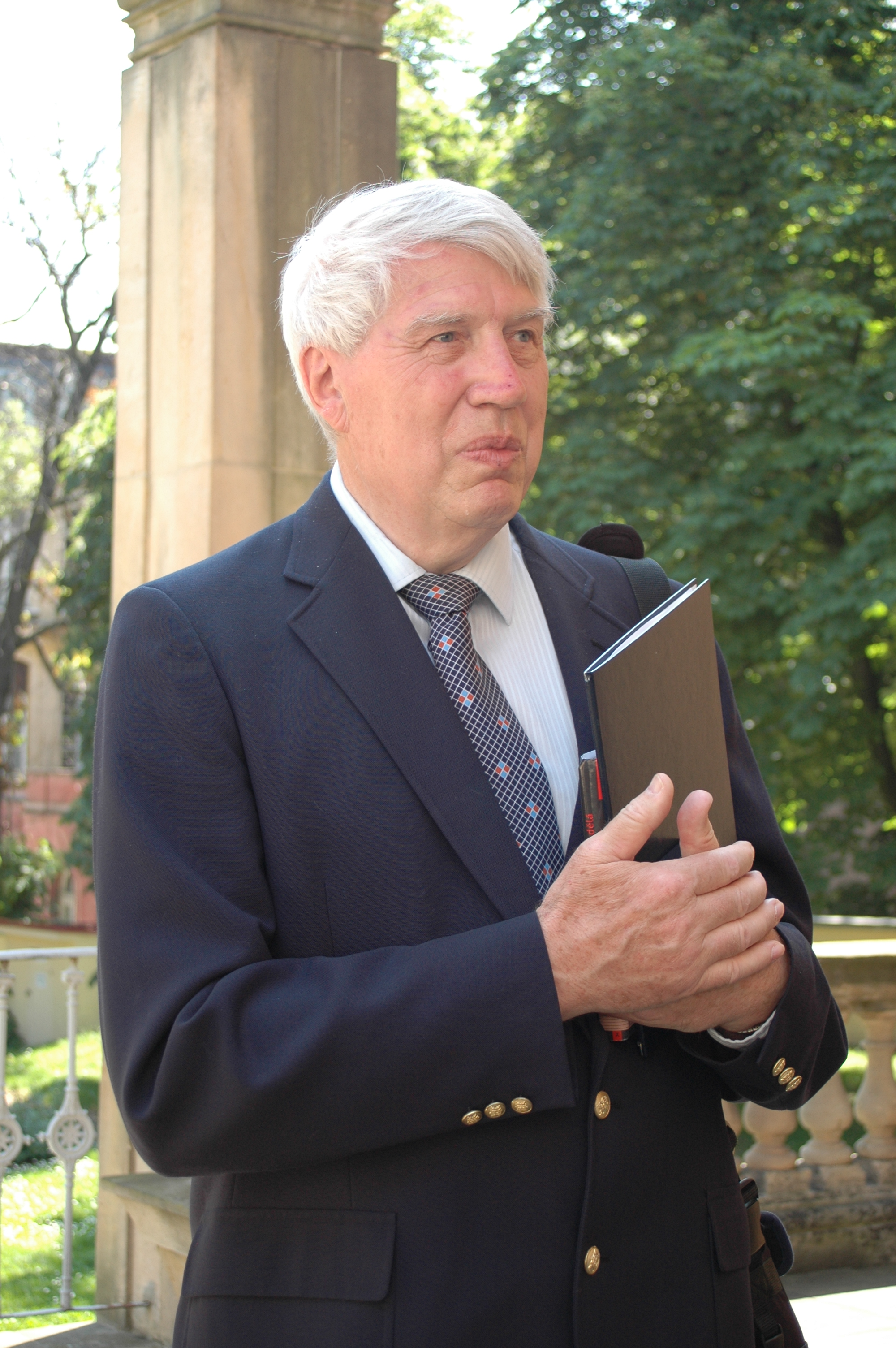 Jan Klein, Scientist, Immunology, Immonogenetics, Czech-American